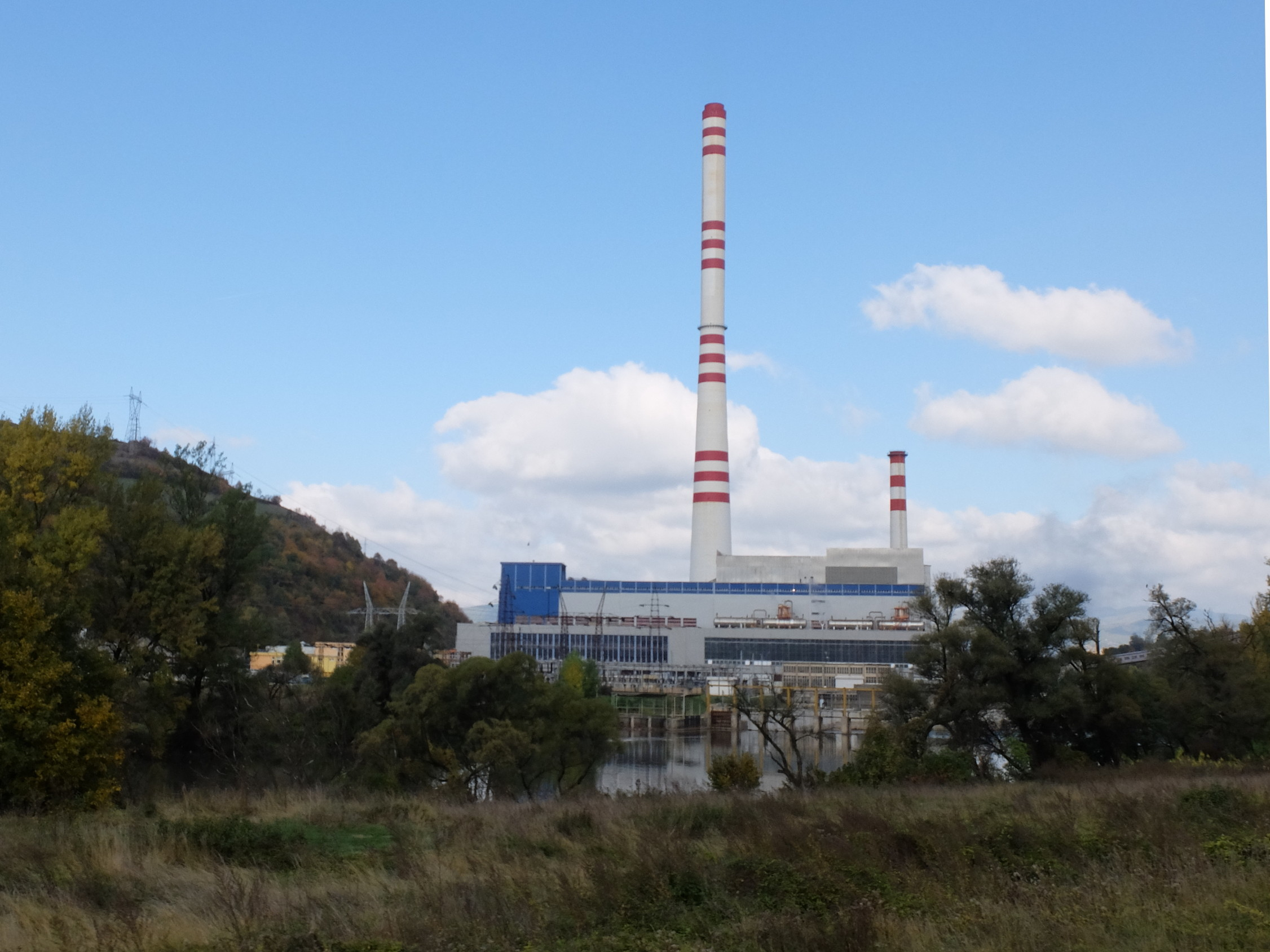 Kraftwerk Kakanj